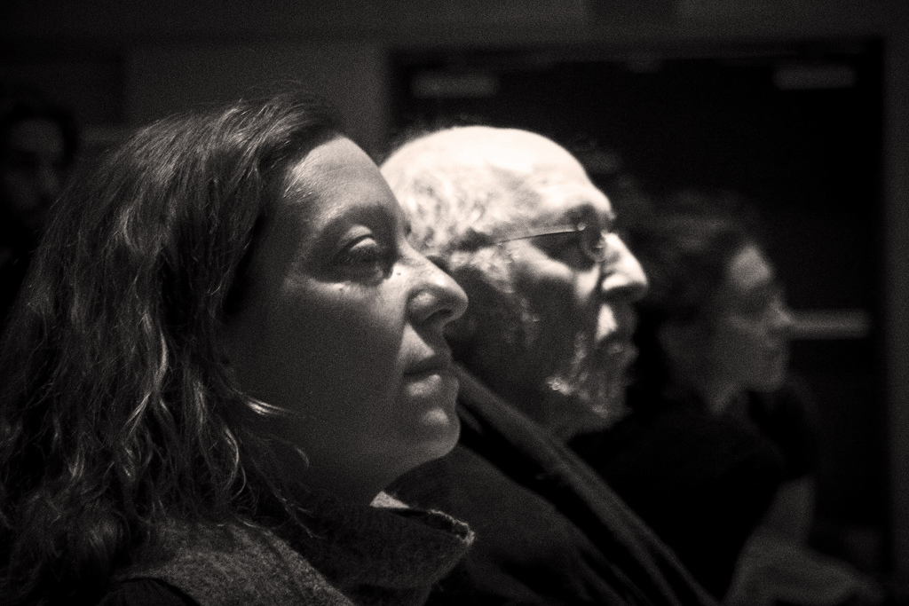 During the International Ethnographic Film Festival of Québec, two film makers participated in a discussion of the cinema and anthropology : Jennifer Alleyn and Michel Brault.